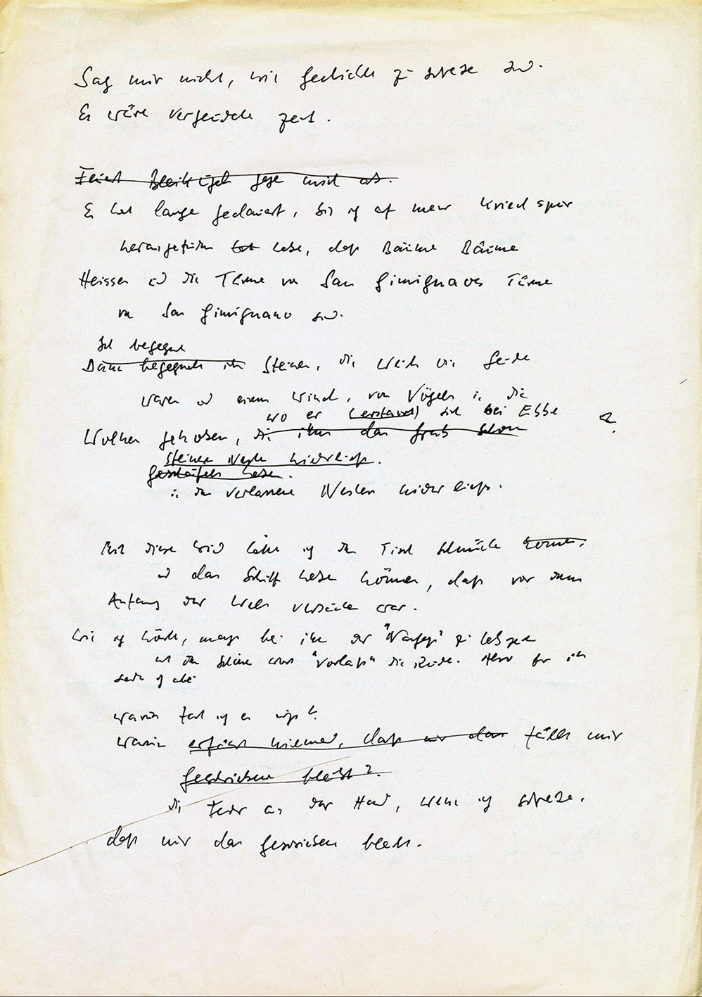 Draft of the poem „Sag mir nicht“ (Don´t tell me), undated